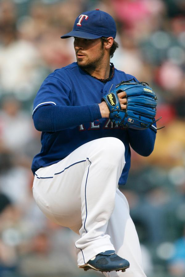 CJ Wilson pitching with his signature blue glove